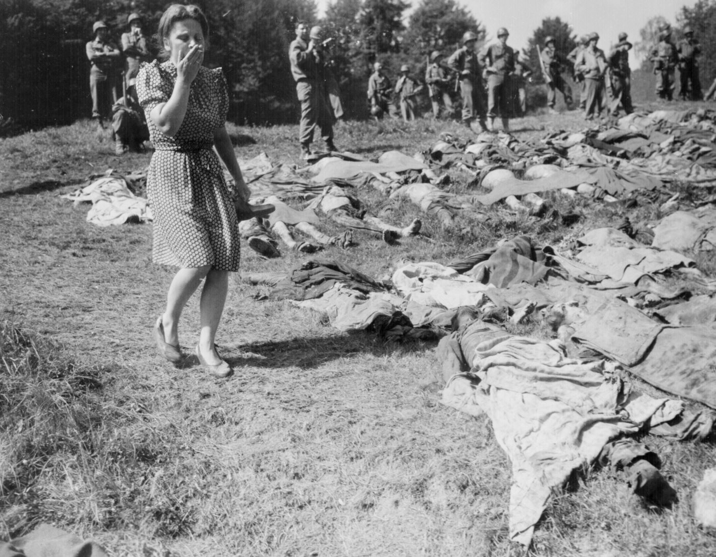 "A German girl is overcome as she walks past the exhumed bodies of some of the 800 slave workers murdered by SS guards near Namering[1], Germany, and laid here so that townspeople may view the work of their Nazi leaders., 05/17/1945" Cpl. Edward Belfer. May 17, 1945. Nara #111-SC-264895.